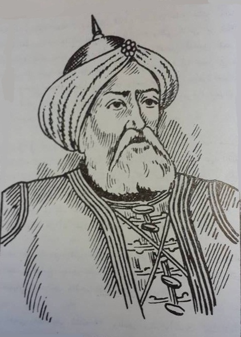 A drawing of Saladin in his 50's